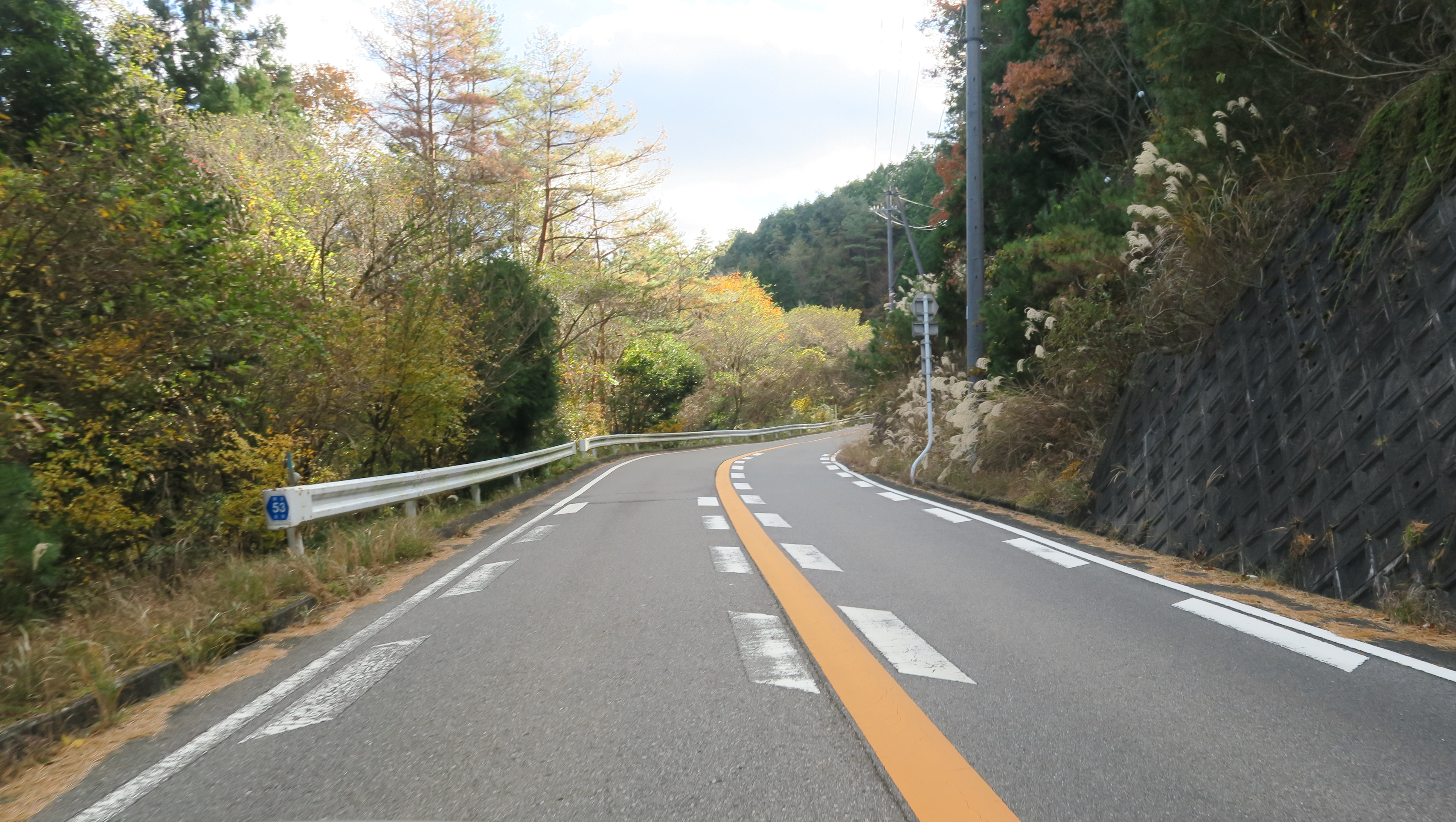 Asebo pass between Koka and Konan in Shiga, Japan